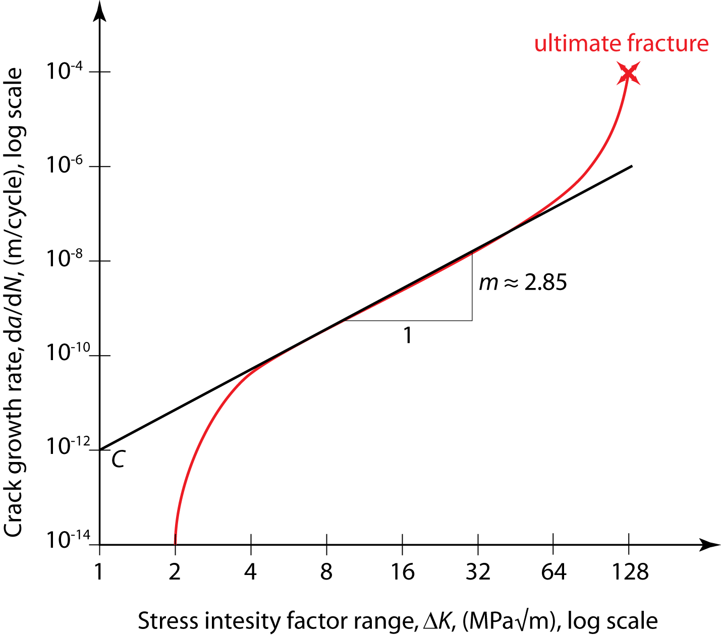 d a d N = C Δ K m {\displaystyle {\frac \rm {d a} \rm {d N =C\Delta K^{m (Paris' law) For a typical fatigue crack growth process, the crack growth rate is plotted over the range of the stress intensity factor (in red). Paris' law is fitted to quasi-linear part of this curve (in black). The crack growth rate, da/dN, denotes the change in crack length, a, with increasing number of load cycles, N. The range of the stress intensity factor, Δ {\displaystyle \Delta } K, depends on the magnitude of the loading, the geometry, and the crack length. Both quantities (i.e., da/dN and Δ {\displaystyle \Delta } K) evolve during the fatigue process until the specimen fails. On a log-log plot, the two Paris law model parameters, C and m, can be determined graphically as the y-axis intersect at x=1 and the slope, respectively. The values of the model shown here, i.e., C=10-12 and m=2.85, are typical for, e.g., aluminum.